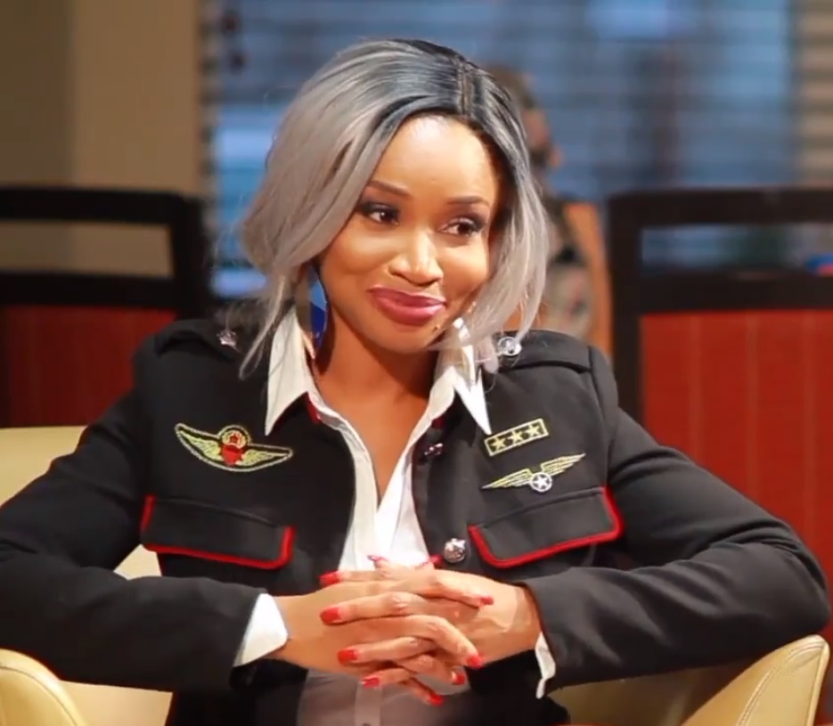 Nigerian television host Princess Halliday interviewing film maker and producer Neville Sajere in 2017.